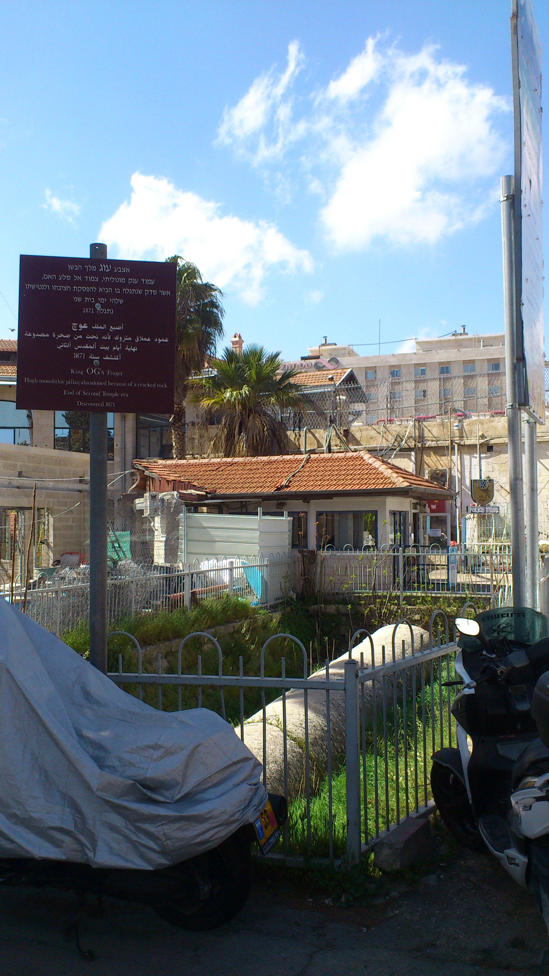 Moscow Square, Jerusalem